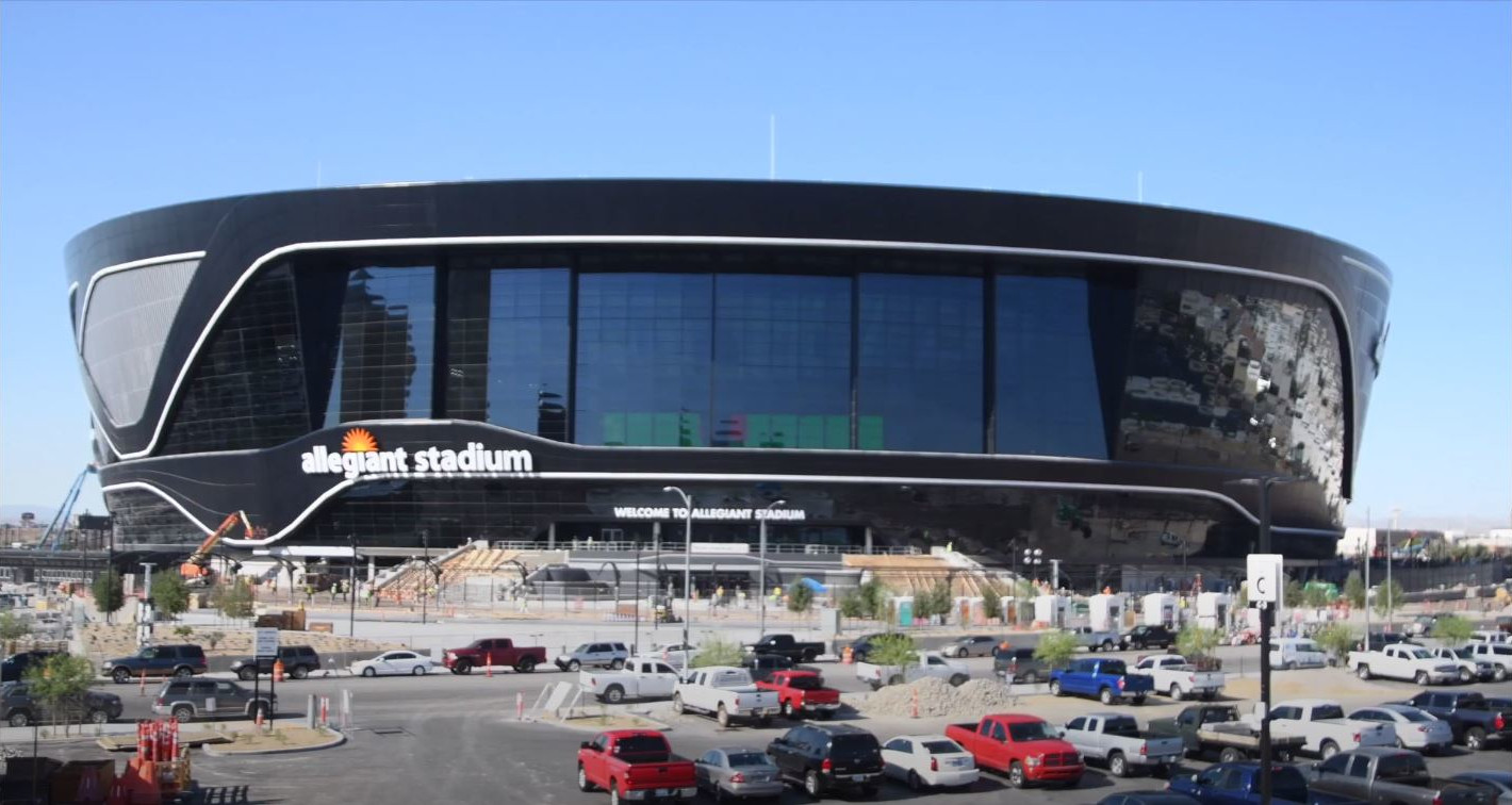 Allegiant Stadium in June 2020 - Las Vegas, Nevada